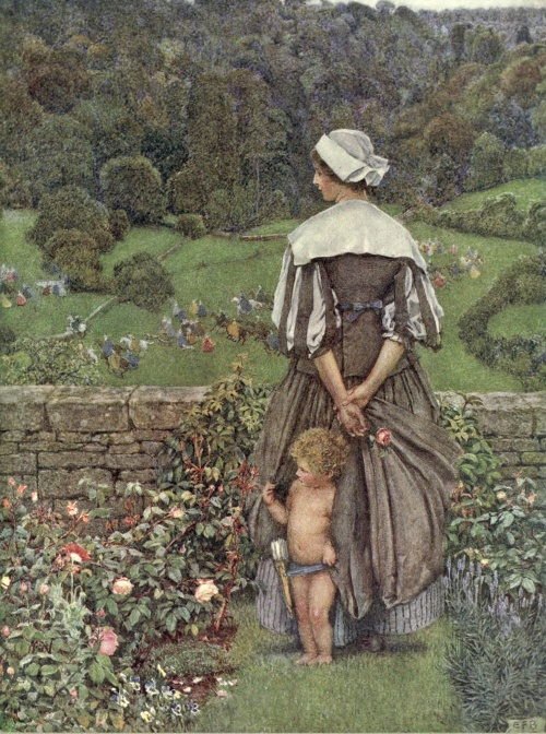 The Book of old English songs and ballads